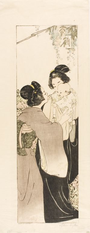 A Monarch of Japan - 1901 - Helen Hyde